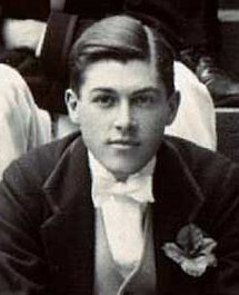 George Llewelyn Davies at the age of 18 in his last year at Eton.